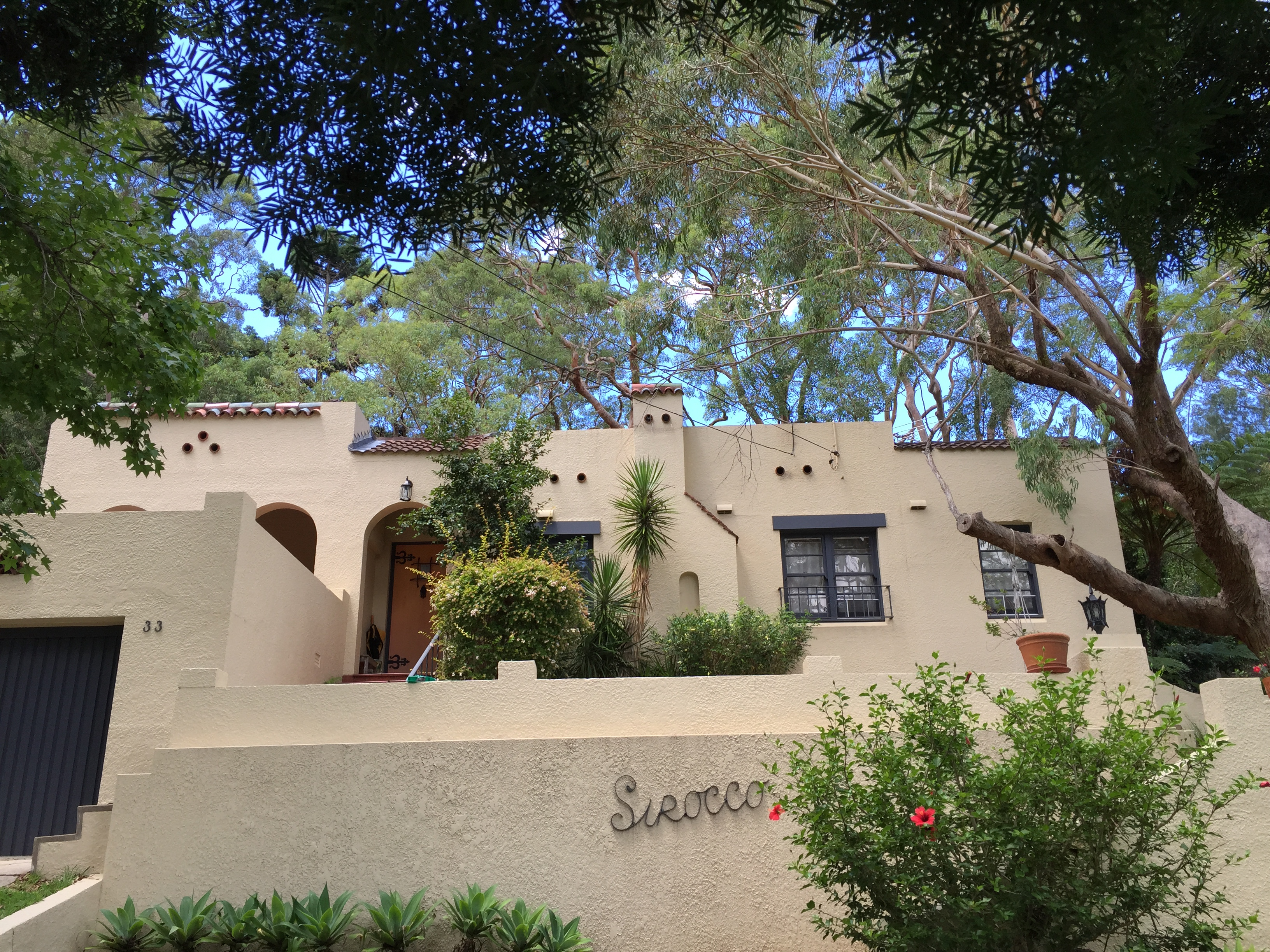 Sirocco, a house in Roseville, New South Wales.